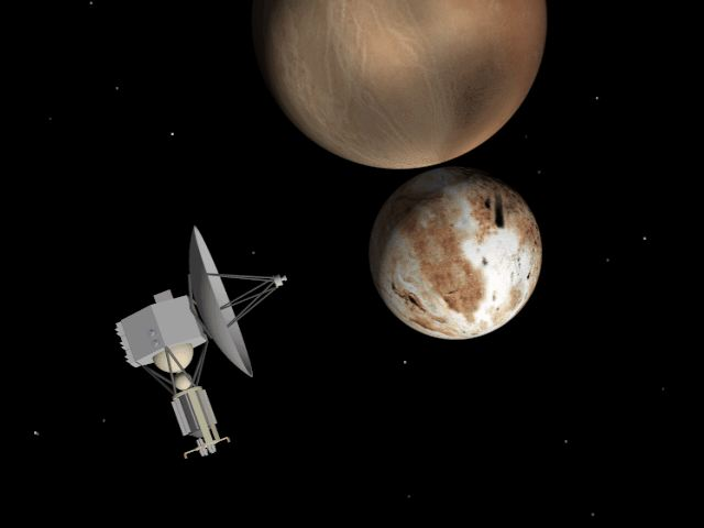 Artist's concept of Pluto Express (now called Pluto Kuiper Express).